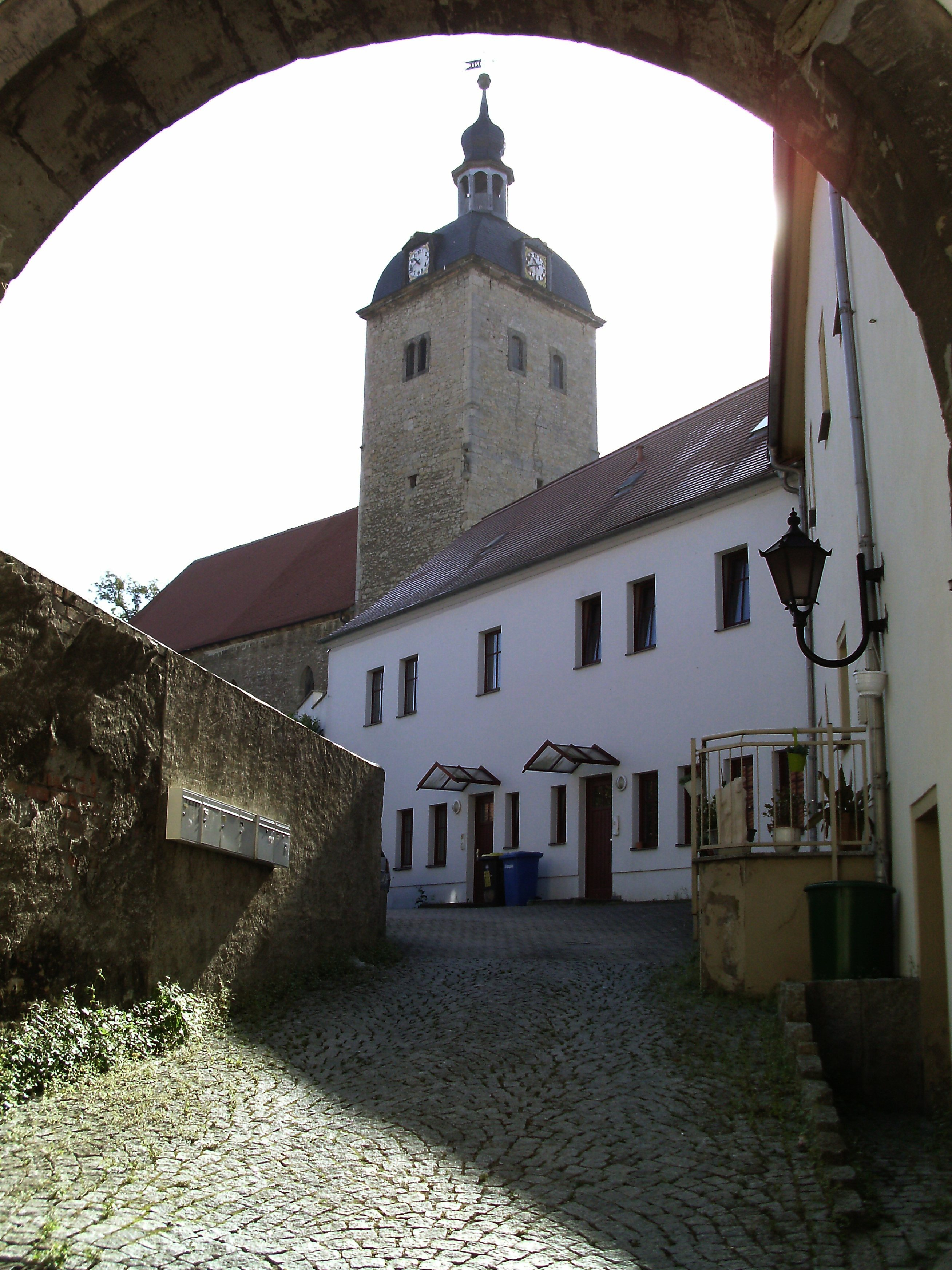 St. James Church in Mücheln/Geiseltal (district of Saalekreis, Saxony-Anhalt), view from no. 19 at market square